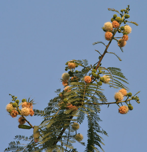 Subabool Leucaena leucocephala in Kolkata, West Bengal, India.